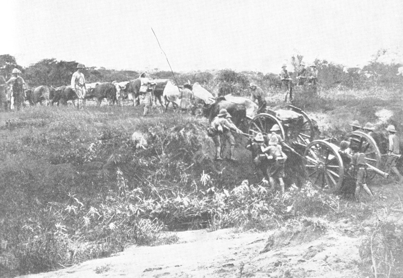 Photograph of a BL 15 pounder field gun of 7th Field Battery being towed cross-country by oxen, German East Africa campaign, World War I. It is identified by the axletree seats, large recoil spring on the trail, obviously heavy weight and flared muzzle. The battery of 4 guns had Mauritian and South African gunners, Indian drivers, African ammunition crew.